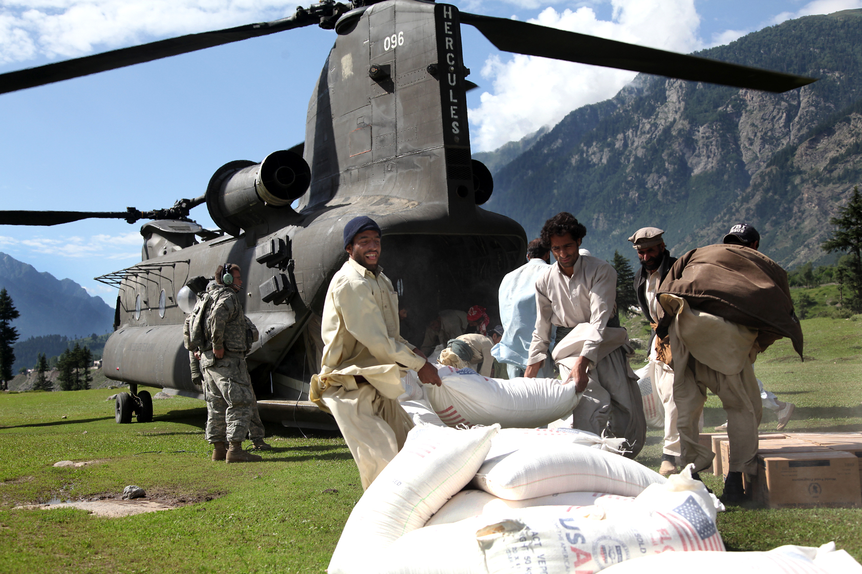 Two Pakistani men throw a bag of flour onto a pile out the back of a U.S. Army CH-47 Chinook helicopter that has arrived to deliver humanitarian assistance and help with the evacuation of flood victims in the Swat Valley as part of the flood disaster recovery effort in Khyber Pakhtunkhwa province, Pakistan.